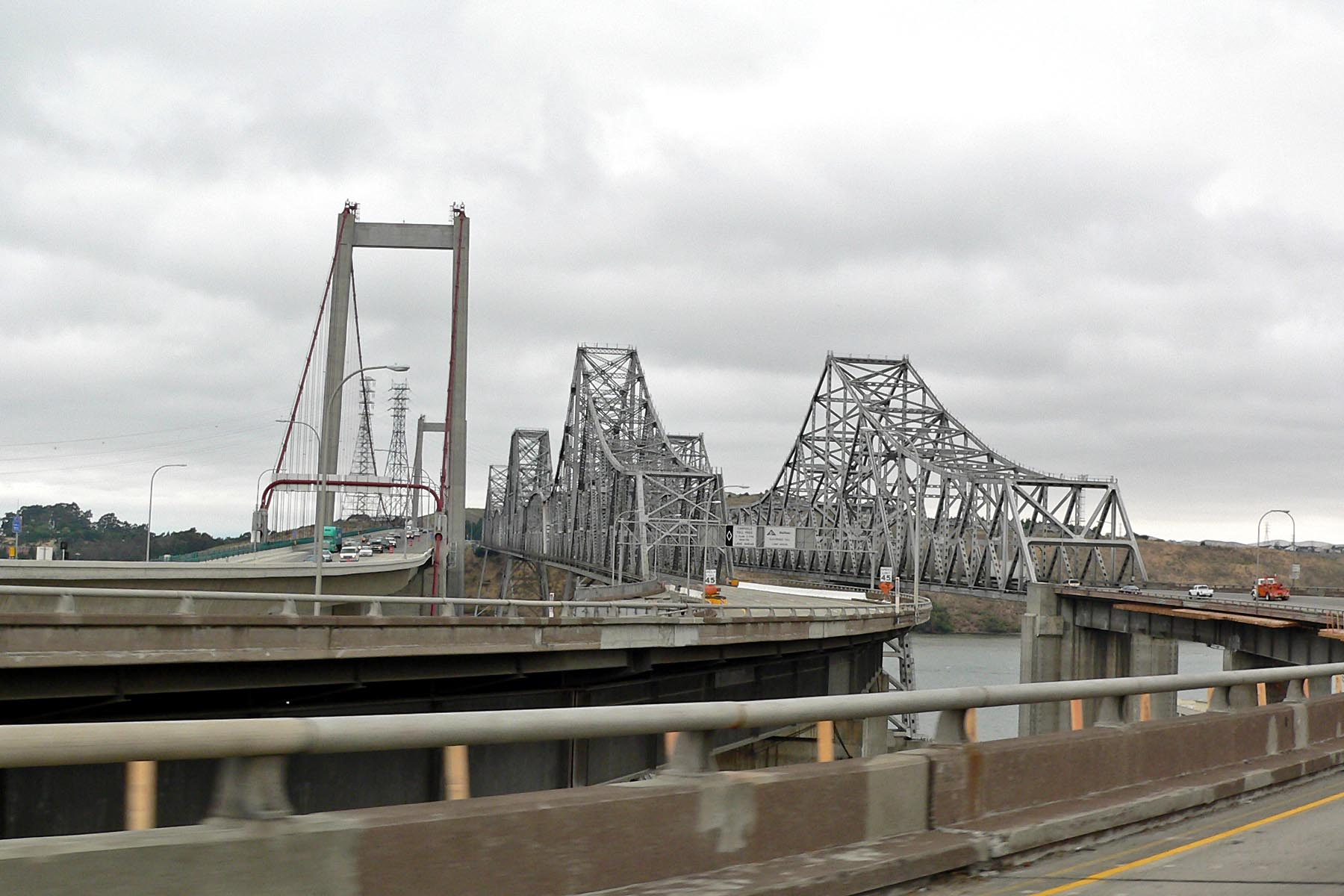 Photo of Carquinez Bridge, California